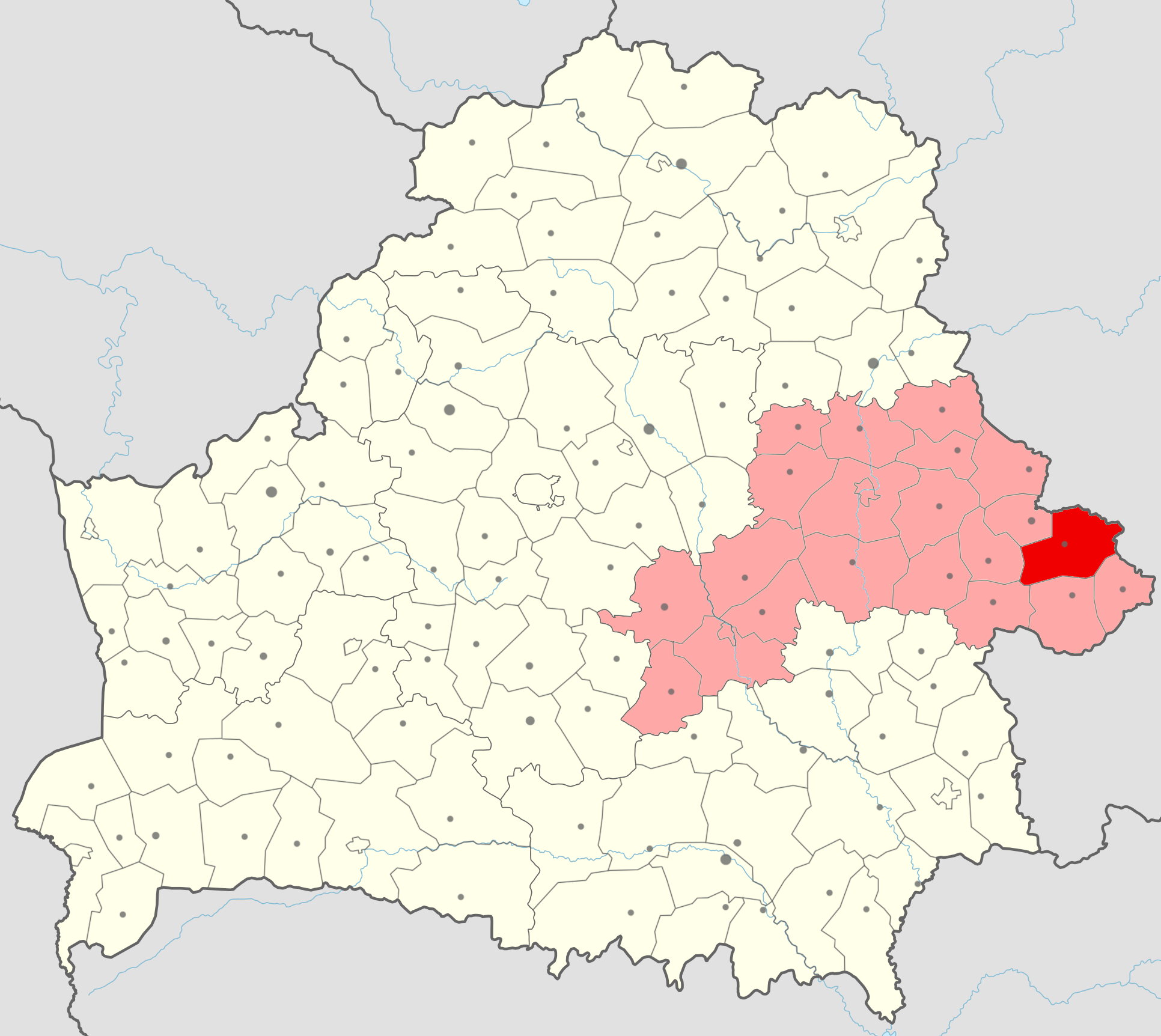 Location of Klimavicki rajon (red) in Mahilioŭskaja voblasć (light red) in Belarus.